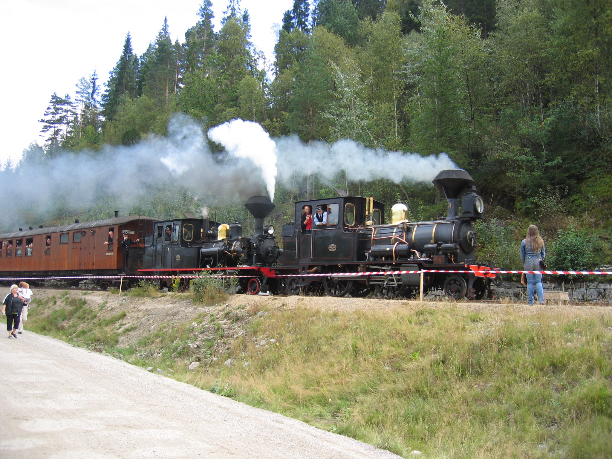 Type XXII no. 6, leads type XXI no. 5 on the SetesdalsbanenSetesdalsbanen to damplokomotiver